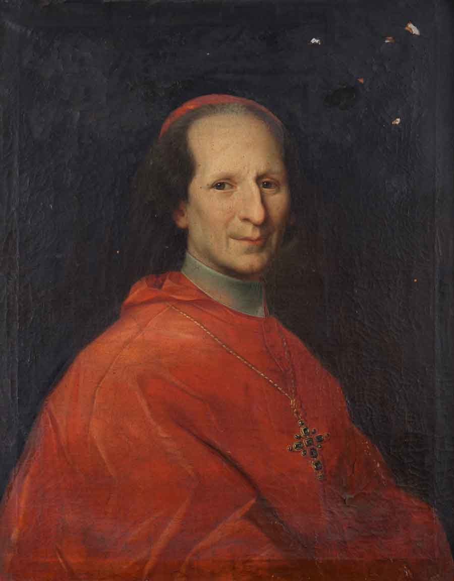 Photo taken by me of a portrait of cardinal Giuseppe Pozzobonelli of an unknown roman painter of XVIII cent, in parish church of Arluno.